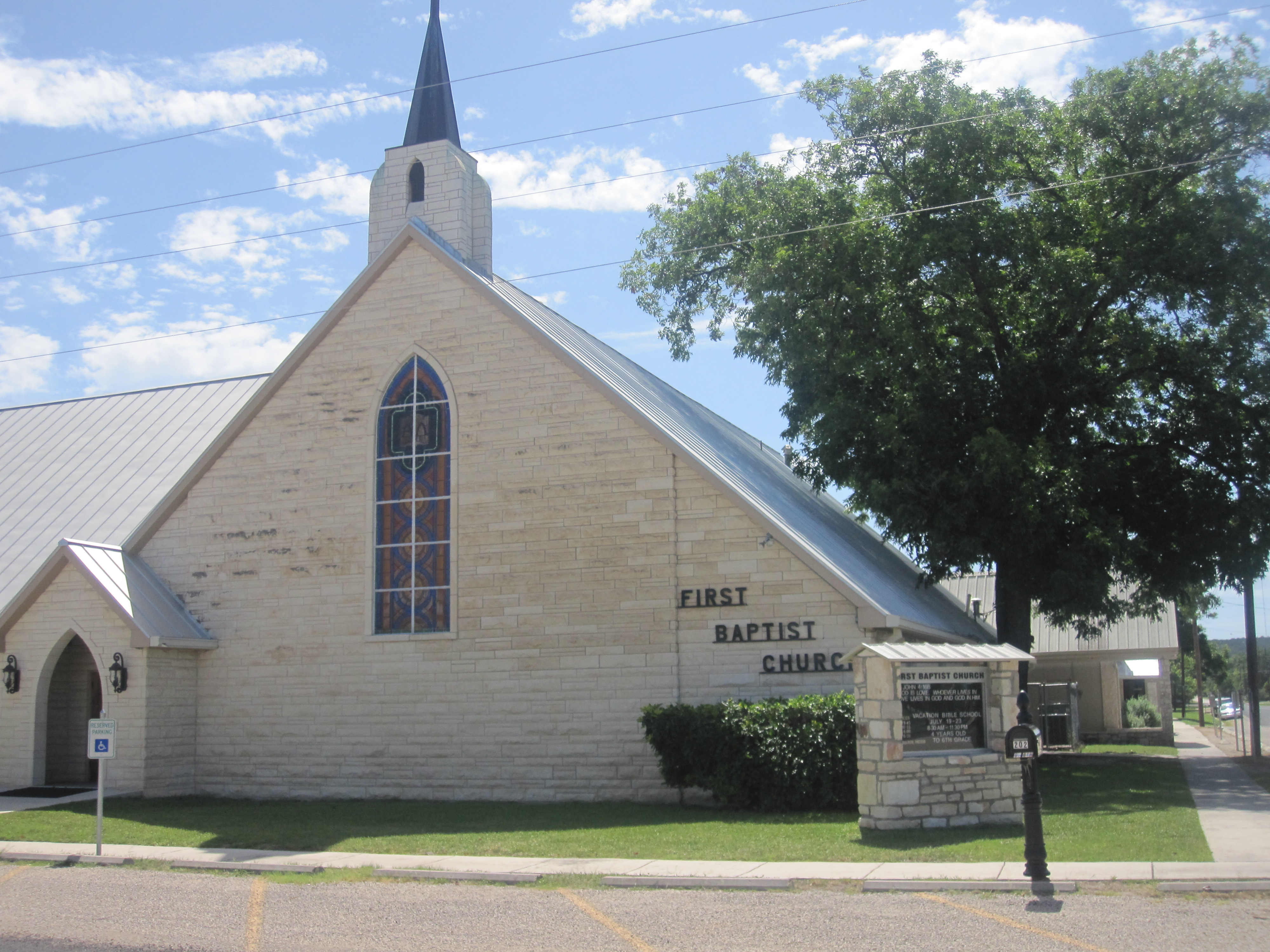 I took photo with Canon camera in Junction, TX.